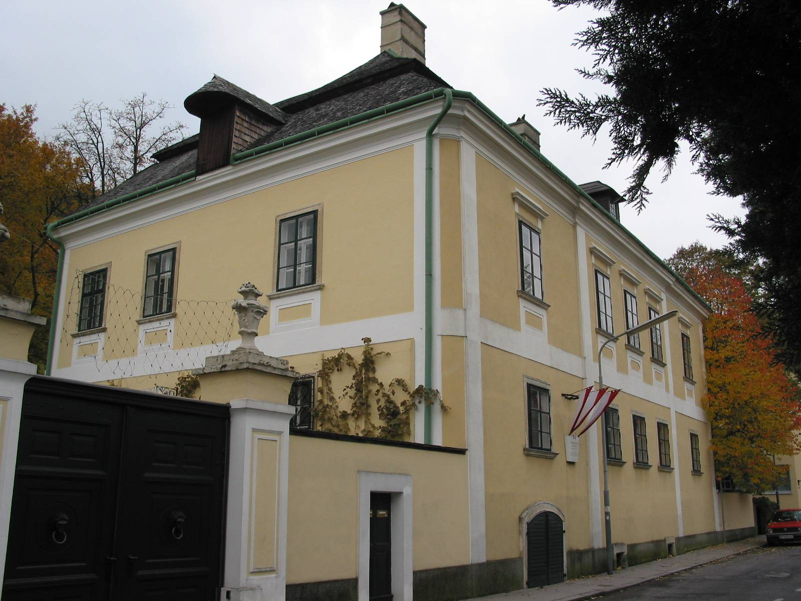 Hofmannsthal-Schlössl in Rodaun en: Palace of H. v. Hofmannsthal